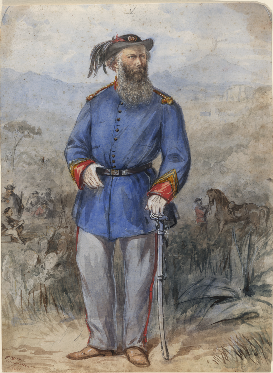 This original watercolor, signed and dated August 22, 1860, by Thomas Nast (1840-1902), originally was thought to be of Italian patriot Giuseppe Garibaldi, but later was identified as showing Colonel John Whitehead Peard. Known as “Garibaldi’s Englishman,” Peard was an Oxford-educated lawyer and the son of a British admiral. He joined Garibaldi in 1860, ostensibly because of the brutality of the officials he witnessed during a visit to Naples. Peard fought in the wars of Italian unification and was awarded the Cross of the Order of Valour by King Victor Emmanuel II. Following Garibaldi’s retirement, Peard returned to Cornwall and lived the quiet life of a Victorian gentleman. The watercolor is accompanied by two photostats from the New York Illustrated News showing the painting as it appeared in the paper on October 27, 1860. The work is from the Anne S.K. Brown Military Collection at the Brown University Library, the foremost American collection devoted to the history and iconography of soldiers and soldiering, and one of the world’s largest collections devoted to the study of military and naval uniforms. Peard, John Whitehead, 1811-1880; Soldiers; Uniforms